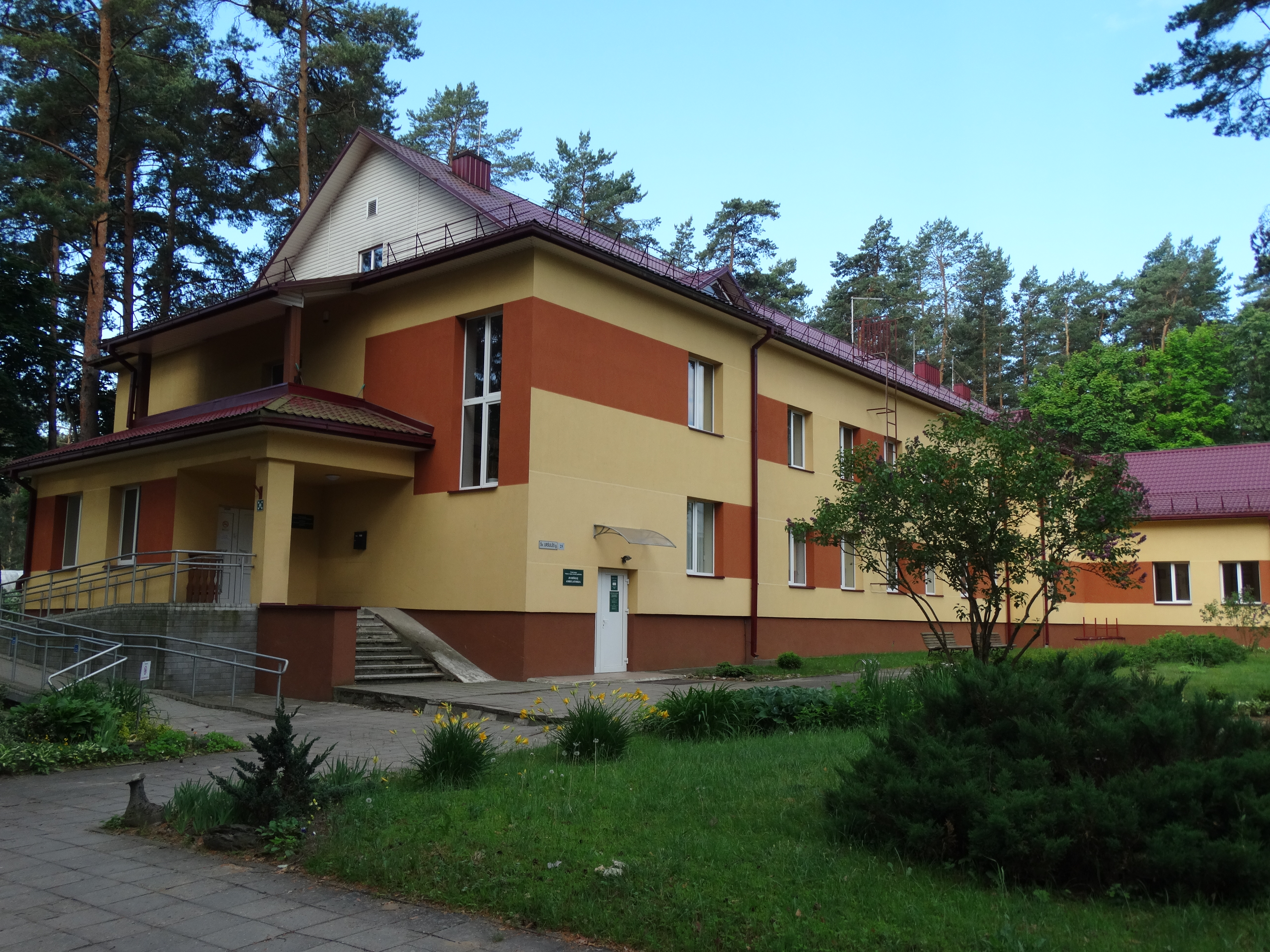 Ambulatory care facility in Juodšiliai, Vilnius District, Lithuania